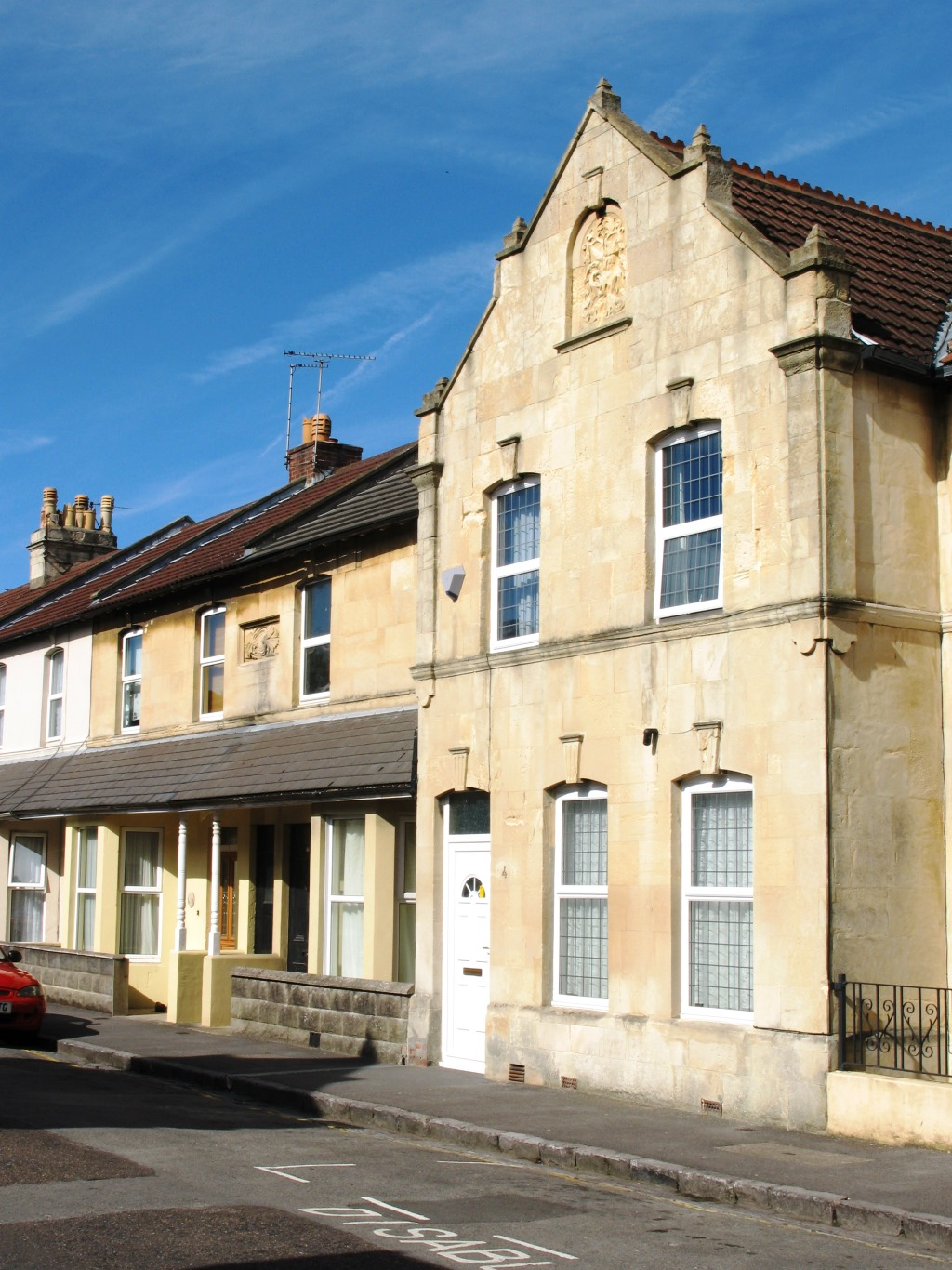 terrace of artisan housing in Wooler Road, Weston-super-Mare, Somerset, England. Architect Hans Price.